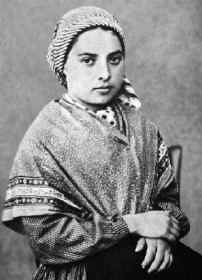 Picture of Saint Bernadette.